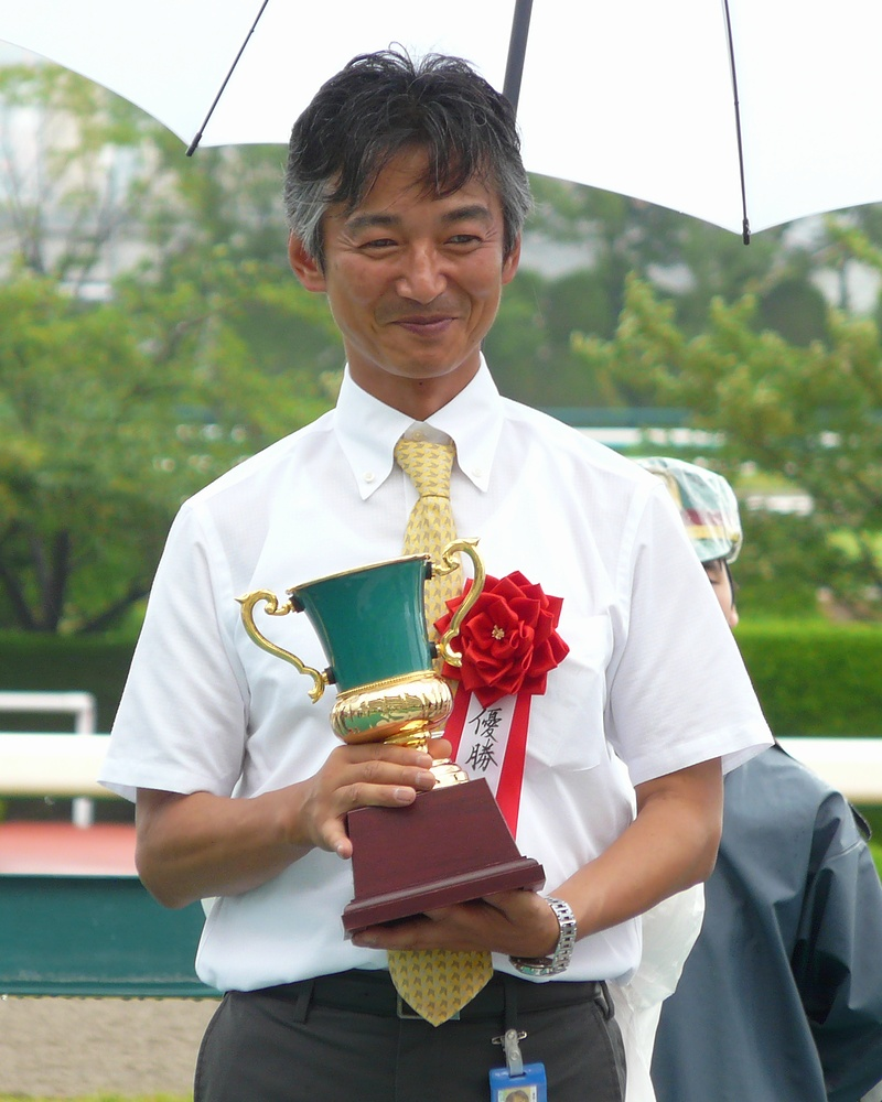 Osamu-Hirata20100711